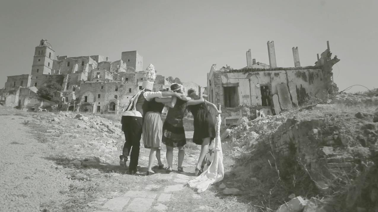 Ödland in Craco, Italia